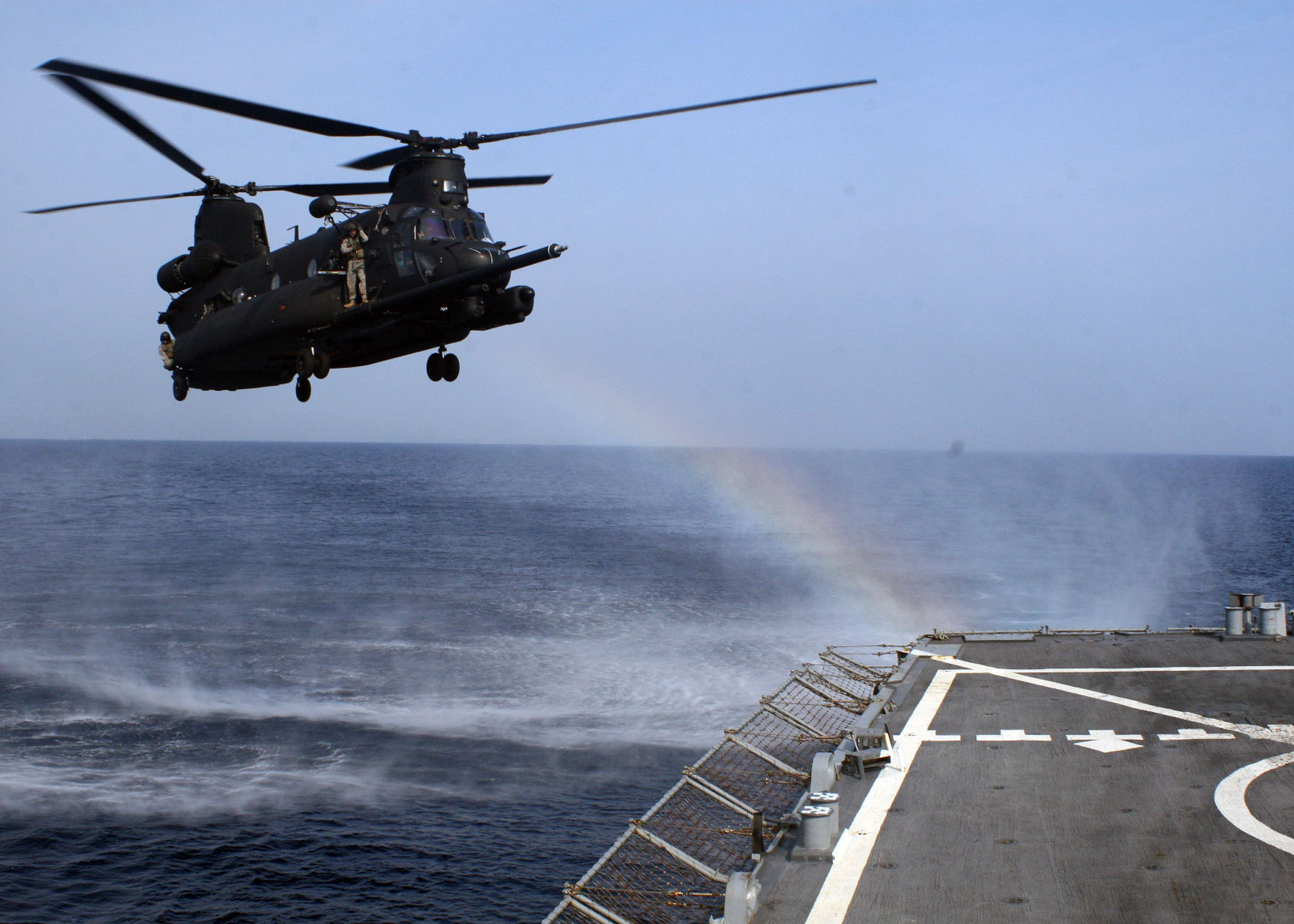 ADRIATIC SEA (September 21, 2009) An MH-47 Chinook helicopter assigned to the 160th Special Operations Aviation Regiment (Airborne) approaches the guided-missile destroyer USS Higgins (DDG 76) to conduct a fast-rope evolution during exercise Jackal Stone 2009. Jackal Stone is a series of training exercises in various locations throughout Croatia to promote cooperation and interoperability between the special operations forces of the 10 participating nations. (U.S. Navy photo by Chief Intelligence Specialist Louis Fellerman/Released)